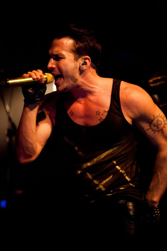 Shawn Desman performing at the Virgin Mobile MOD Club in Toronto. November 16th, 2013.